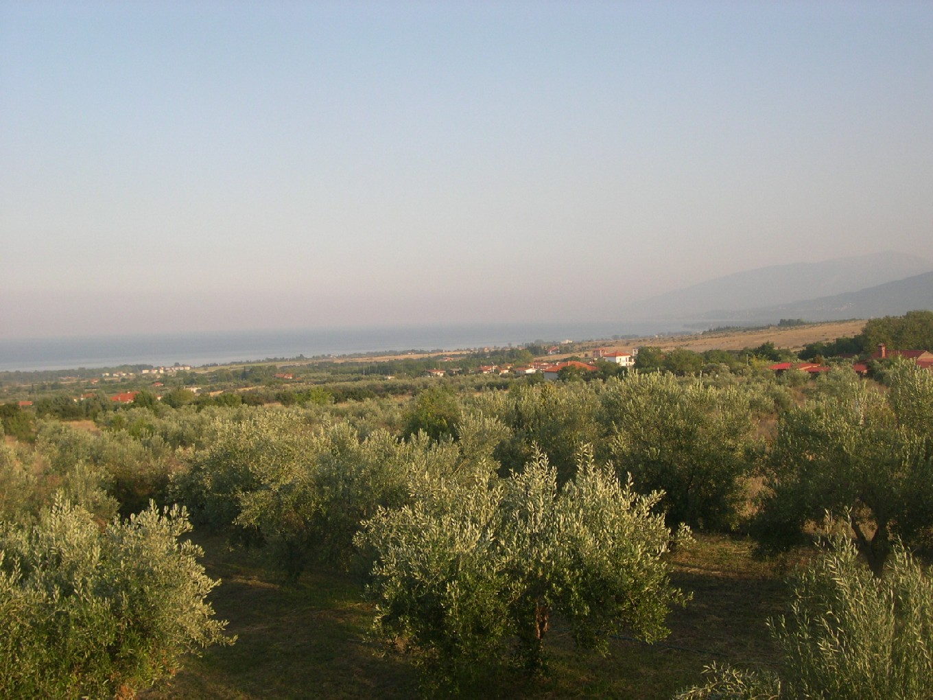 View of Plaka, in Litochoro, Pieria region; northern Greece.